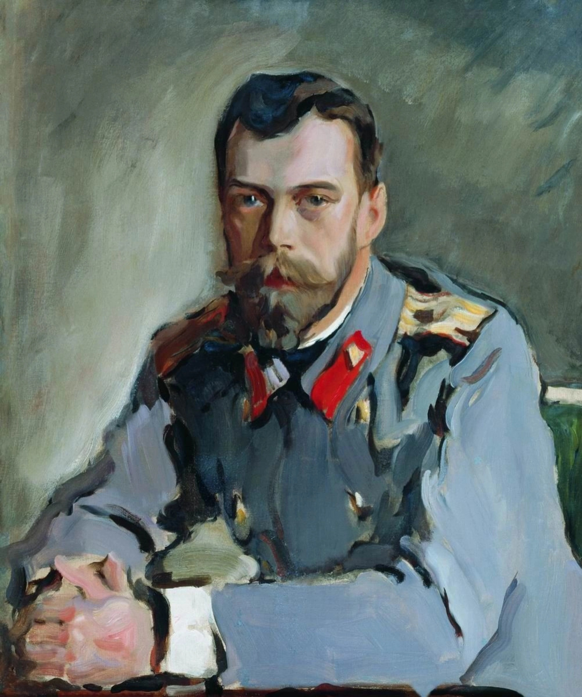 The Prince in a pea jacket (?)